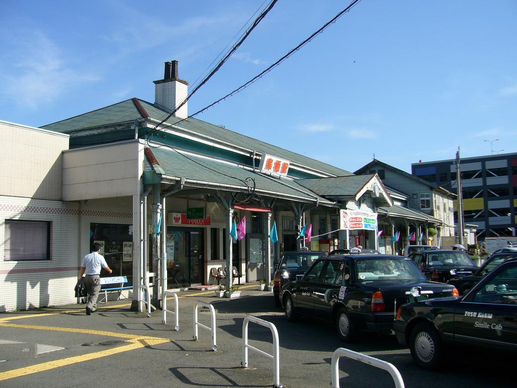 It is Tosu Station in Saga Prefecture Tosu City in Japan.